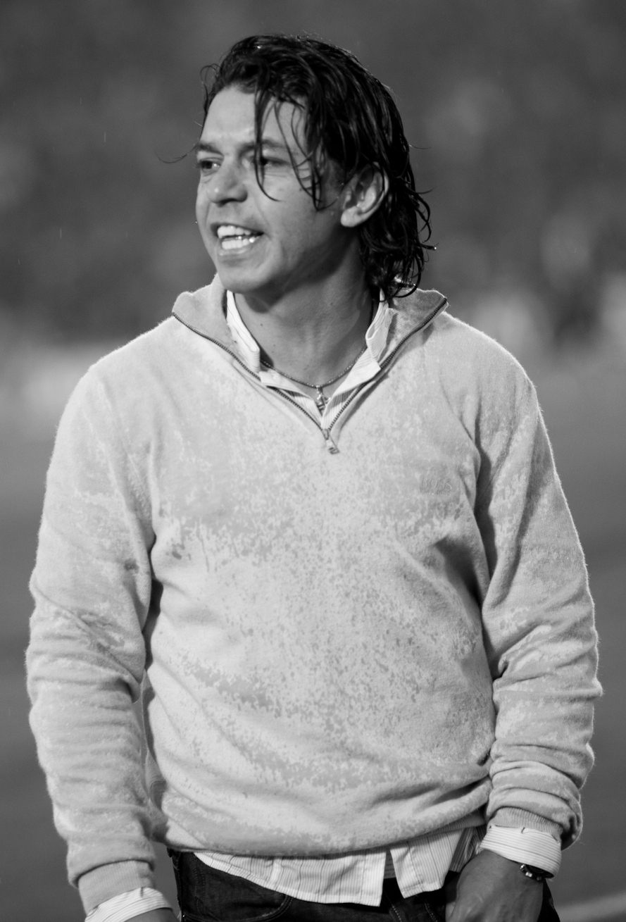 Argentine former player and manager Marcelo Gallardo, during his stunt on Nacional.